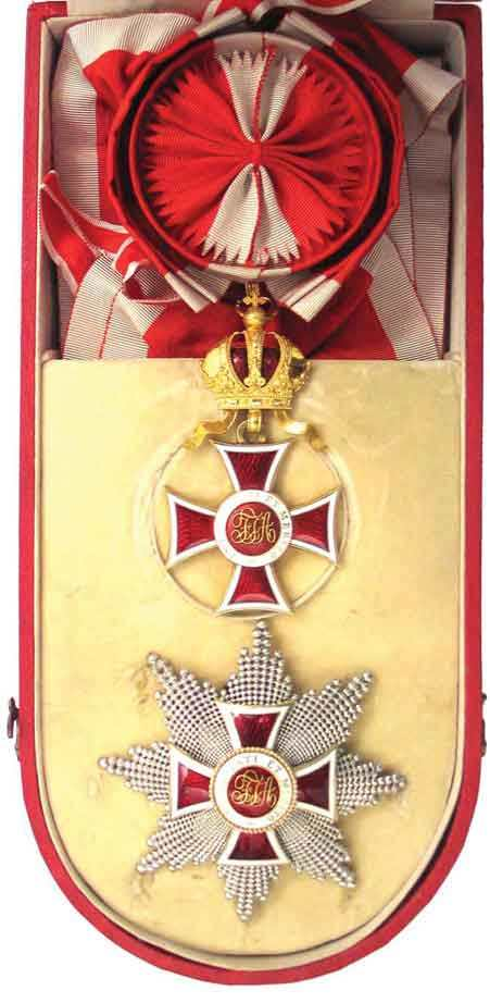 Osztrák Császári Lipót-rend nagykeresztje díszdobozban